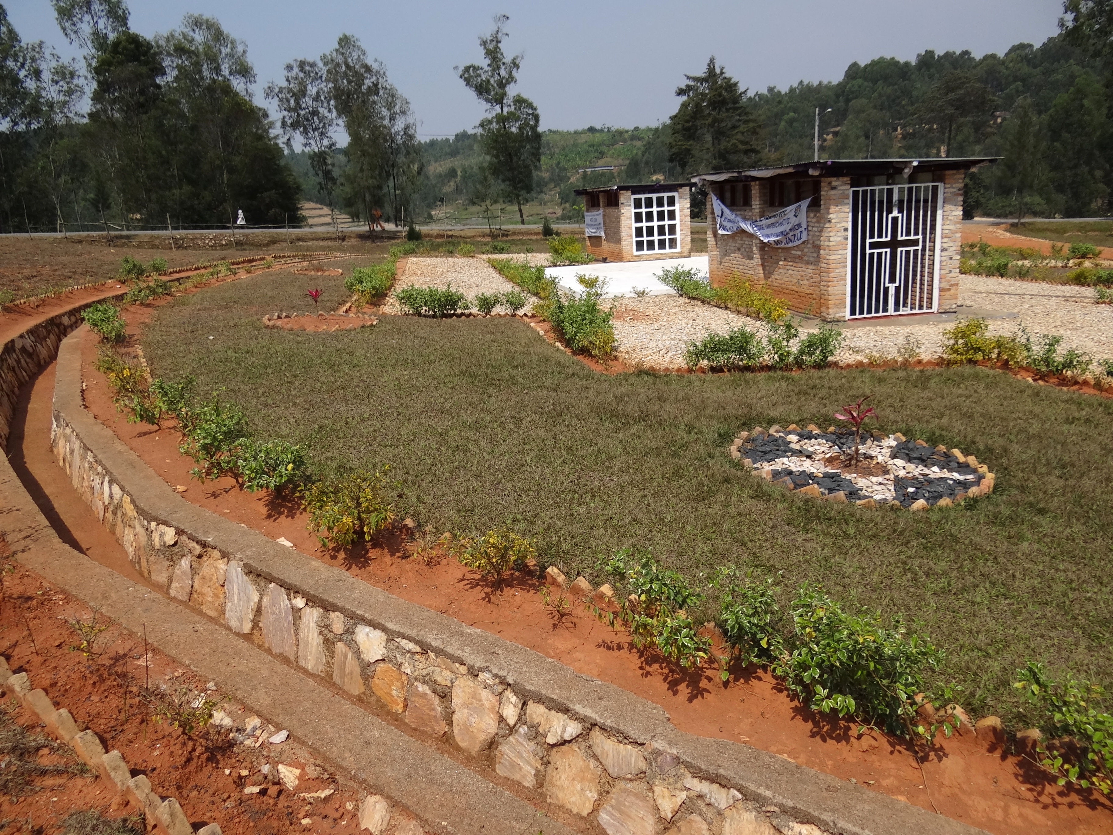 Genocide Memorial Where 6000 Are Buried - Below Kabgayi Cathedral - Outside Muhanga-Gitarama - Rwanda - 03